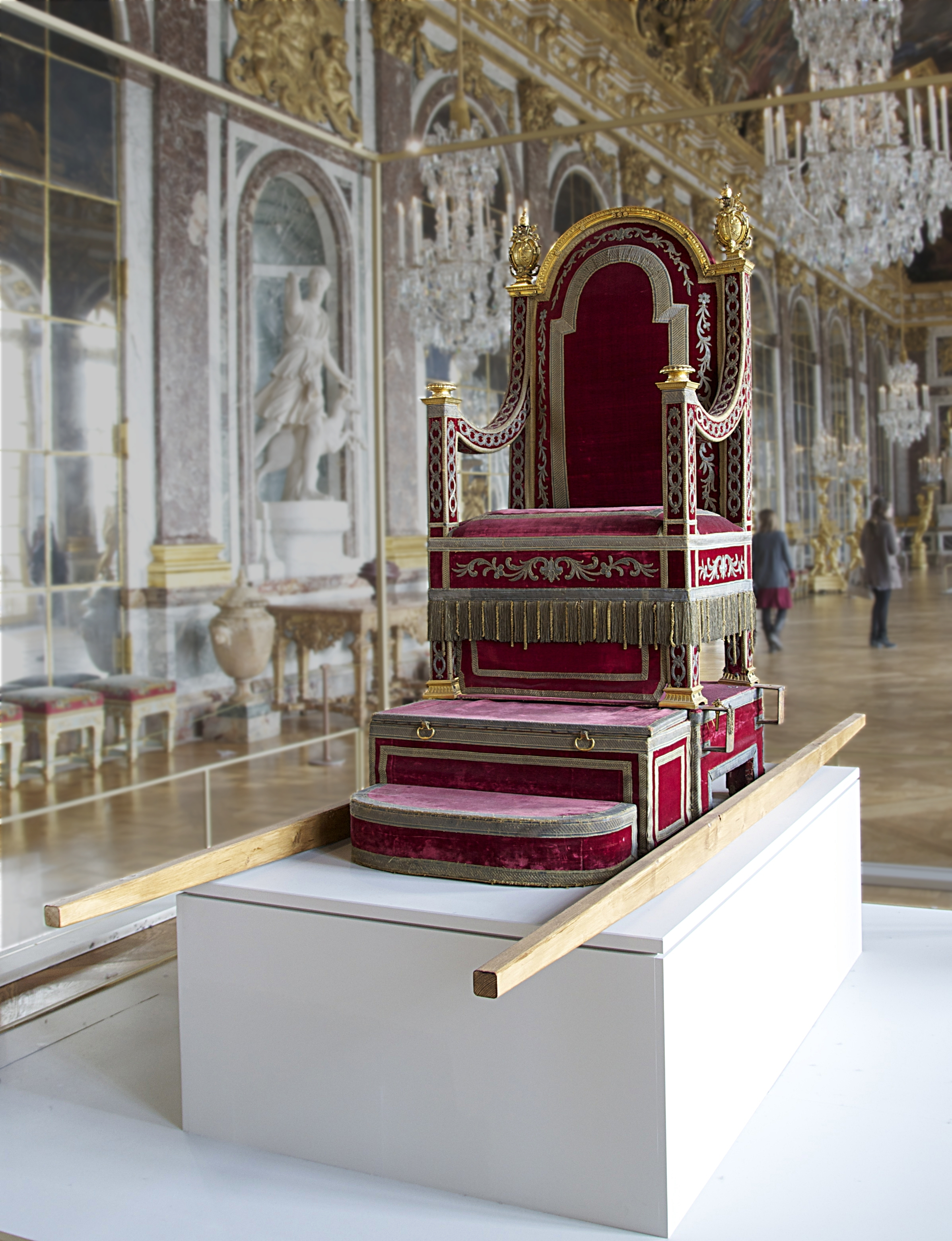 The Sedia Gestatoria (litter) of Pope Pius VII (1800-1823), exhibition of various thrones in Galerie des Glaces of Château de Versailles